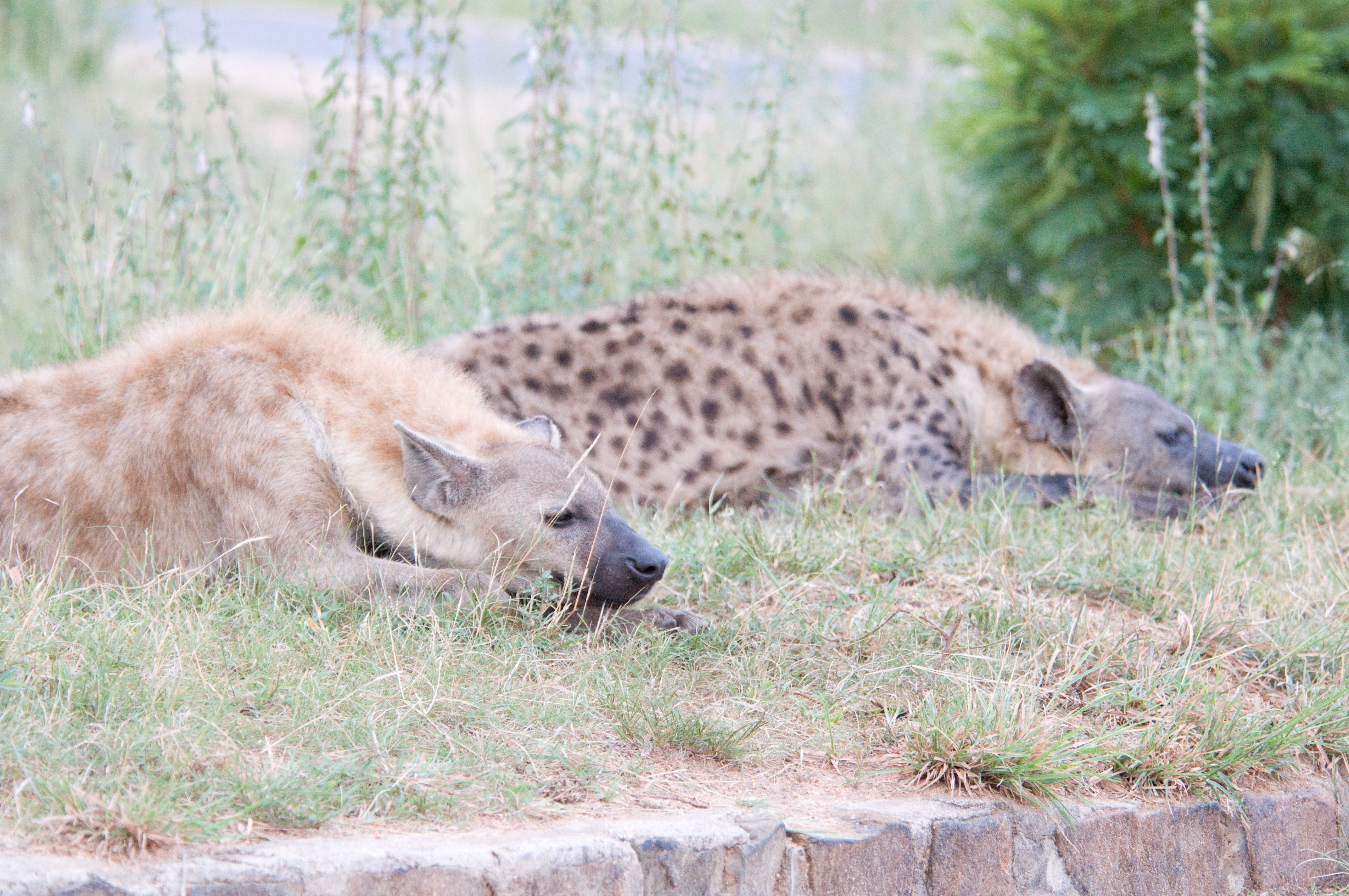 A pair of spotted hyenas at White River, Mpumalanga, South Africa